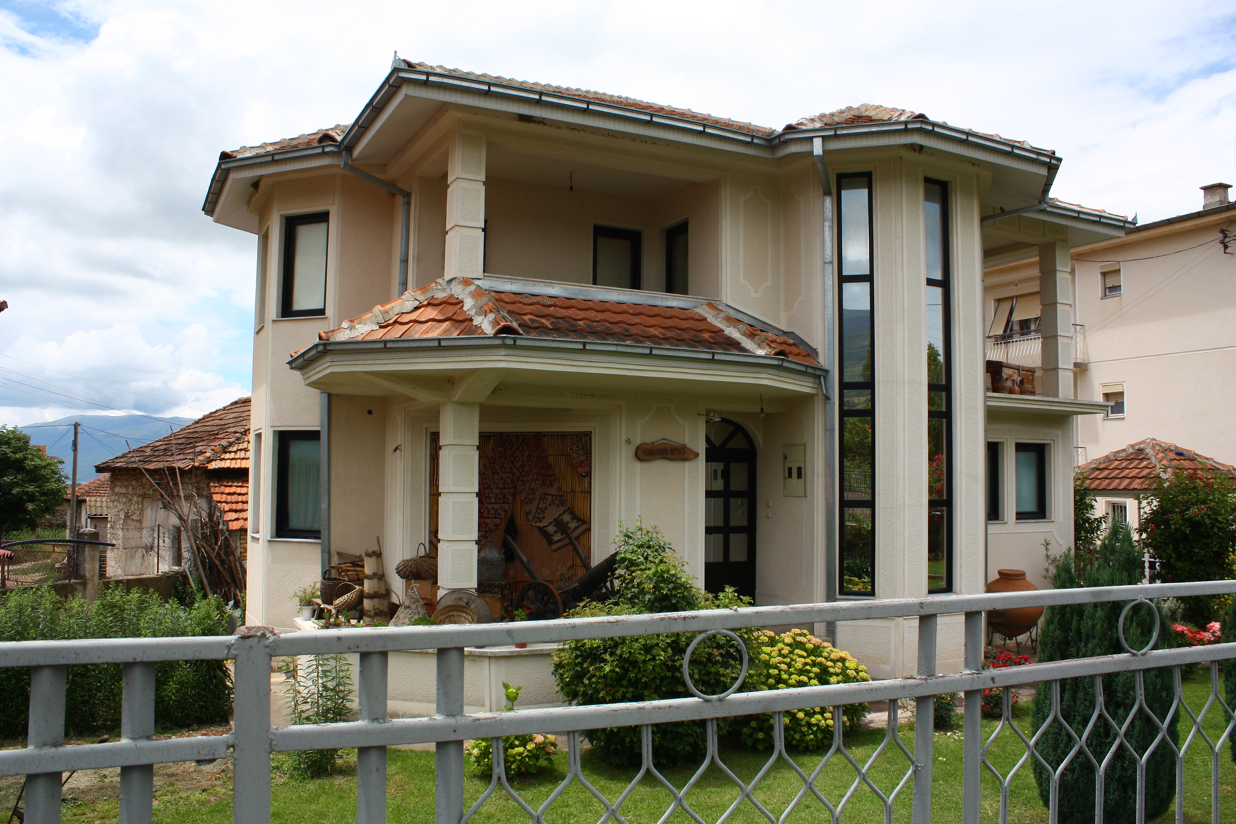 Ethnological Museum in Podmočani, Macedonia